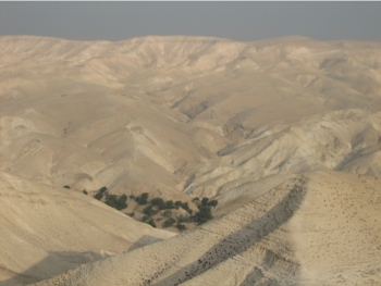 A view from over Wadi al-Qelt towards north: area of the Tribe of Ephraim. / Pogled iz Wadi al-Qelta prema sjeveru: pustinjski dio područja plemena Efrajim.